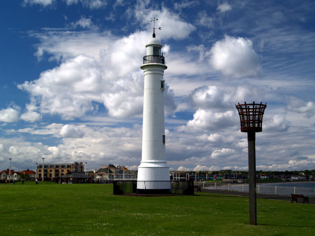 Sunderland south lighthouse. Inactive since circa 1903, 15m high cast iron tower. When the pier was shortened in 1983, the lighthouse was moved to its present position.